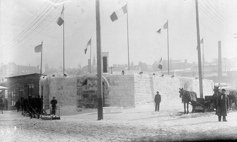 Ice fort at the Quebec City Carnival in 1896